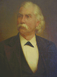 Benjamin Thomas Biggs of Delaware (1821-1893) Courtesy of Delaware Department of State, Division of Historical and Cultural Affairs. Collection of the Delaware State Museums. Per Jeff Hague, Registrar of Regulations, Legislative Council, State of Delaware, image is not copyright and is used with permission. Hall of Governors Portrait Gallery.